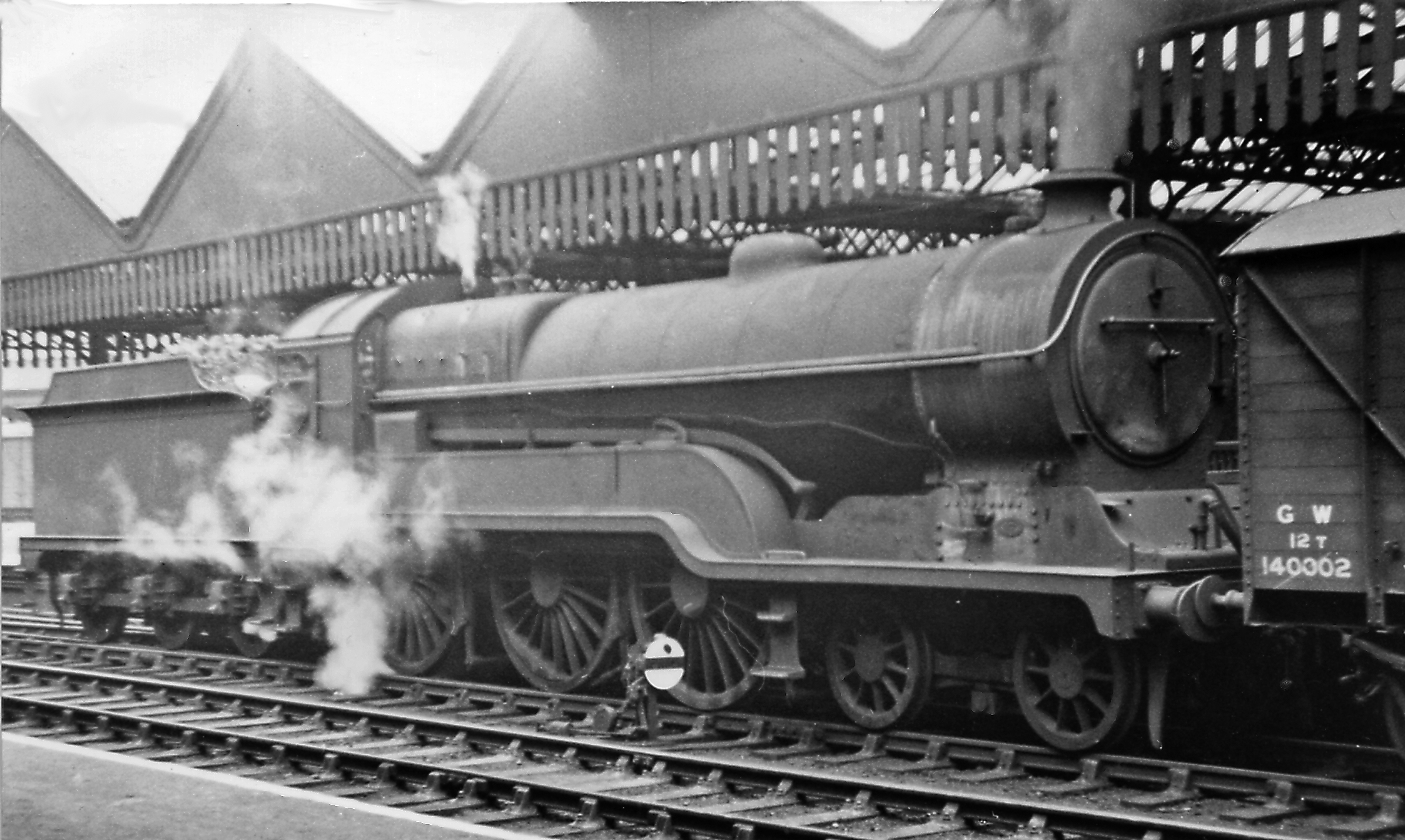 Ex-GC Robinson 4-6-0 at Sheffield Victoria. Eking out its last days as station pilot is the last of the earlier Robinson 4-6-0s, LNER Class B2 (later B19). This one was built in 3/13 as GC No. 427 'City of London', was LNER No. 5427, then in 1946 Nos. 1476 then 1492 - but its name had been transferred to streamlined B17 No. 2870 in 9/37; it was withdrawn in 11/47.